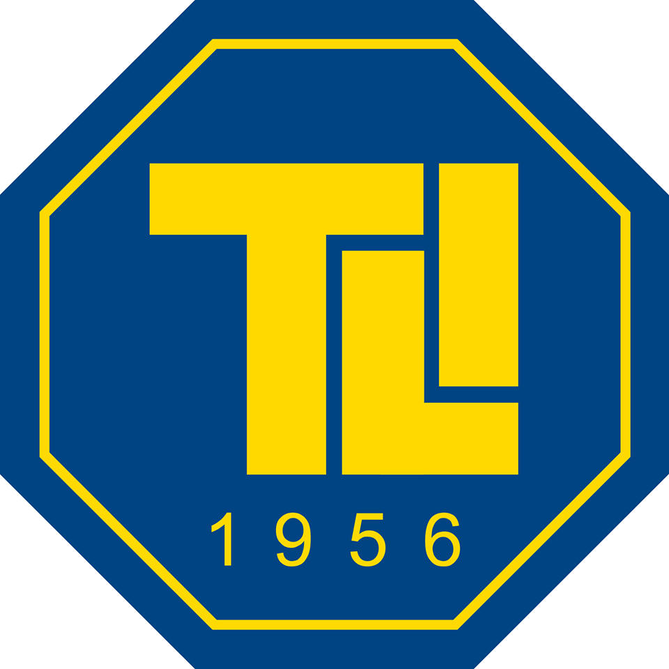 Taipei Language Institute logo